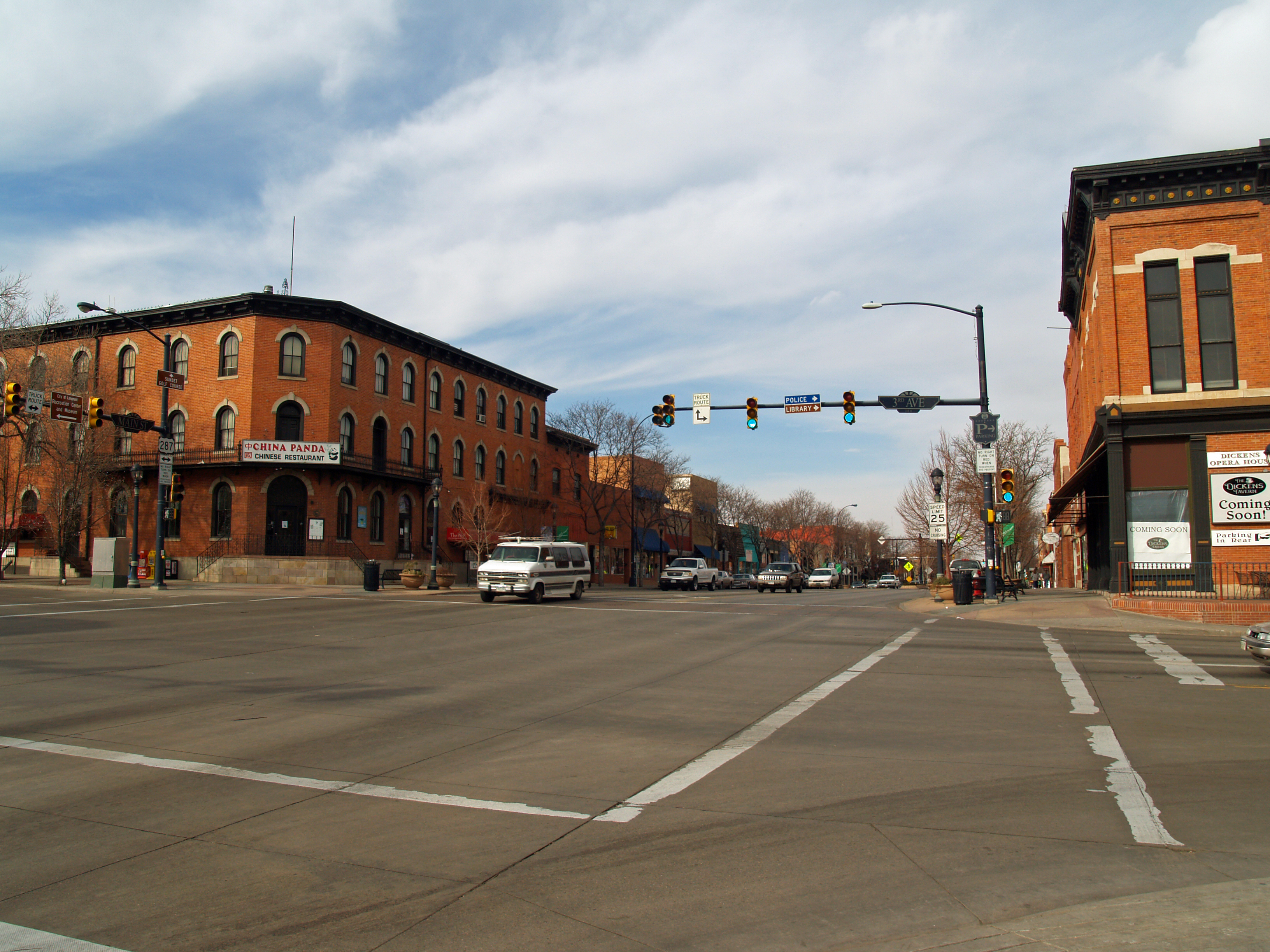 Looking north from the intersection of Main St. and 3rd Ave. towards the 300 block of Main St. Longmont, Colorado.